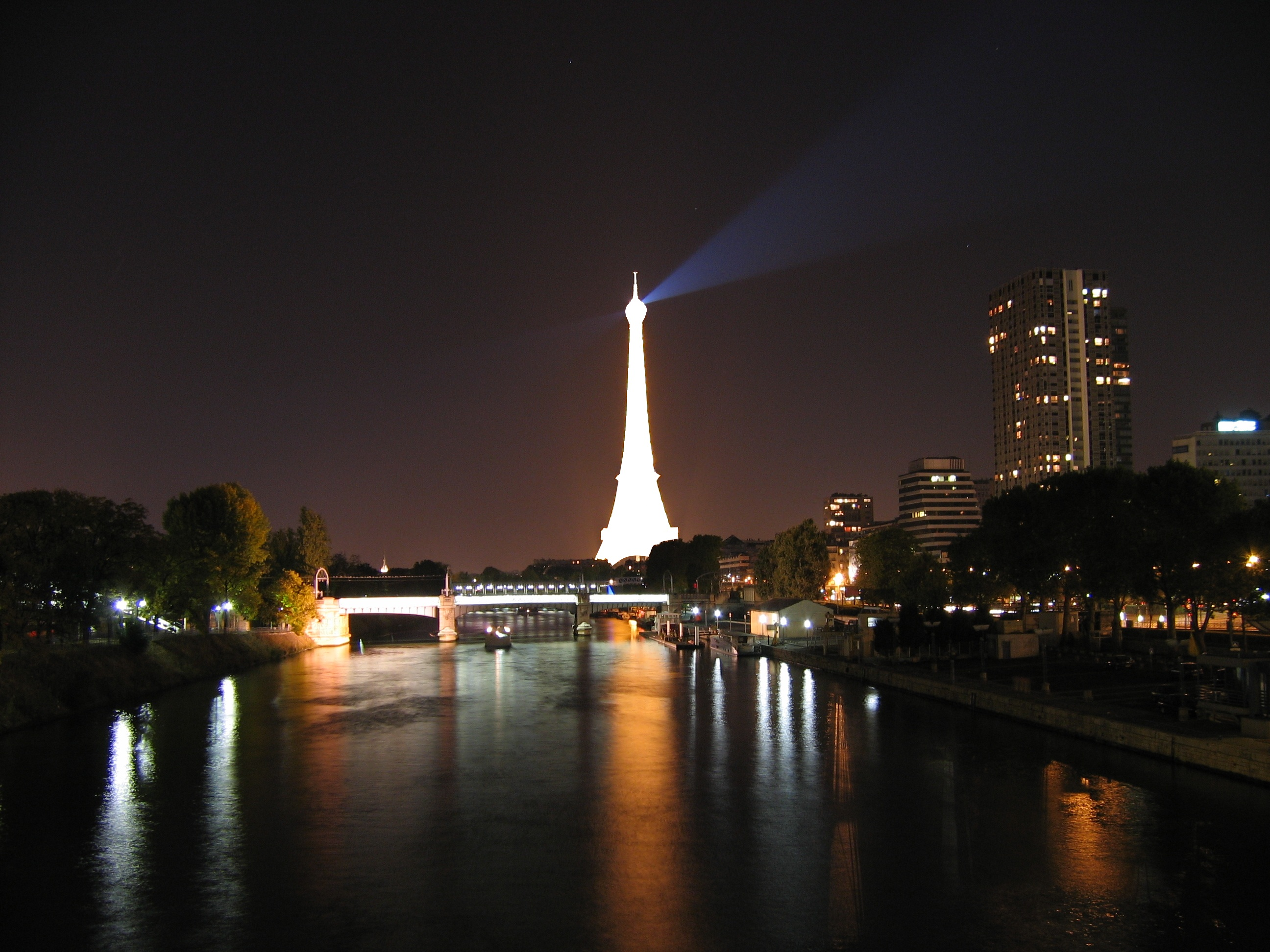 Censored version of a picture of the Eiffel Tower, Paris, because there is no Freedom of Panorama in France